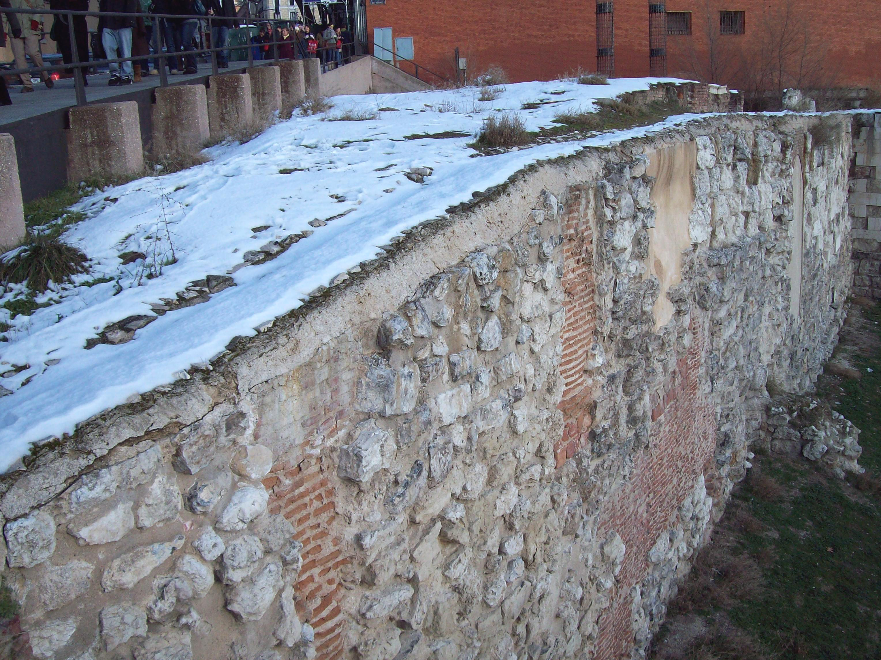 Ruins of the muslim wall of Madrid (Spain) after a snowfall.